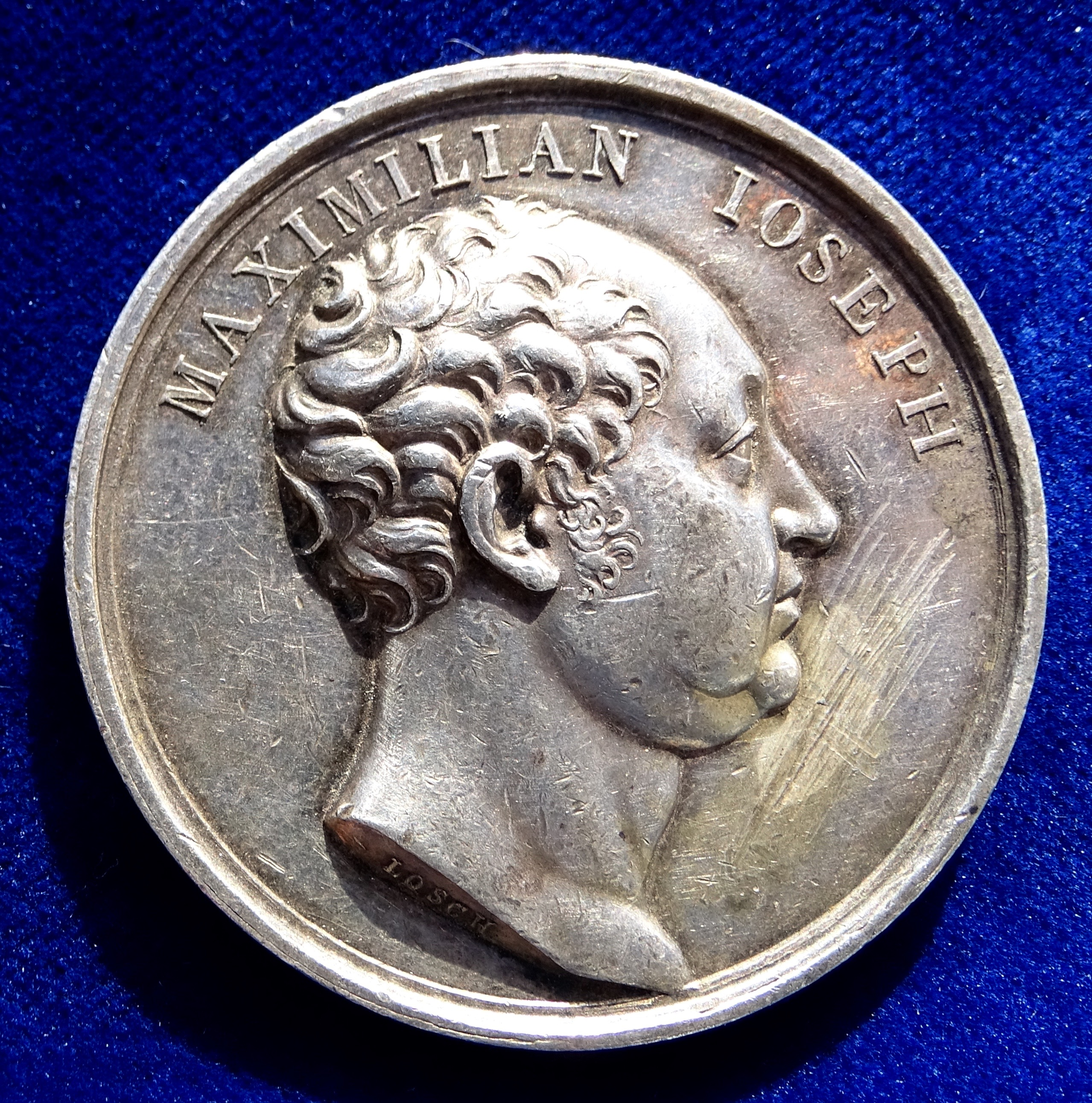 Bavaria Parliament Silver Medal 1819 by Losch, VF. Presentation medal of the Bavarian Parliament (Bayerische Ständeversammlung) to their King Maximilian (IV.) I. Joseph, 1799 - 1825 on the first anniversary of the constitution of 1818. Medallion d.= 48 mm. 43.77 g Ag. Head r., curved above: "MAXIMILAN IOSEPH"/ 6 lines: "DEM GEBER DER VERFASSUNG BAIERN' S DANKBARE STAENDE XXVI MAI MDCCCXIX". Wittelsbach 2516; Forrer III, p. 478. Condition: VERY FINE, no hidden faults.